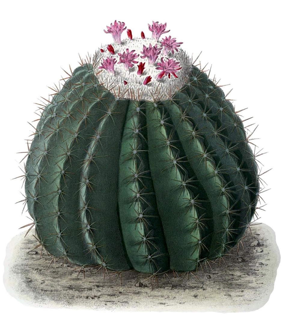 Melocactus curvispinus ssp. caesius